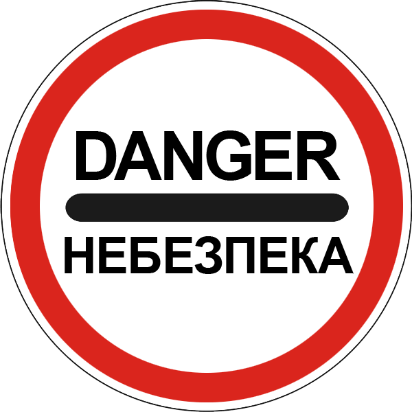 Danger (the road has been closed off due to an unforeseen danger such as accidents, natural disasters, landslides, fallen rocks, heavy snowfall, floods, etc).